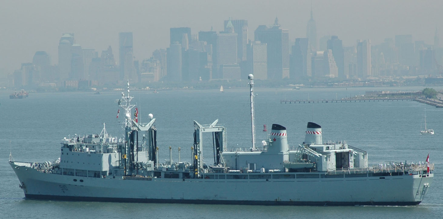 090520-N-1938G-009 NEW YORK (May 20, 2009) The Canadian Navy auxiliary oiler HMCS Preserver (AOR 510) cruises Hudson Bay during the Parade of Ships, kicking off the start of New York City Fleet Week 2009.